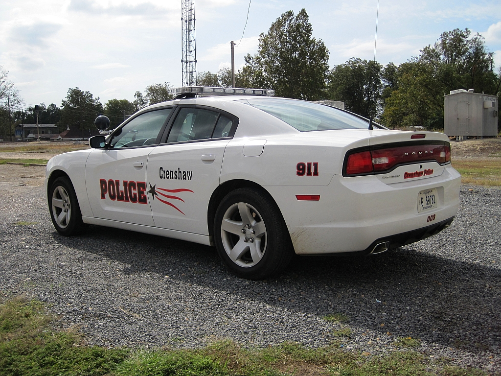 Crenshaw, Mississippi Crenshaw Police cruiser